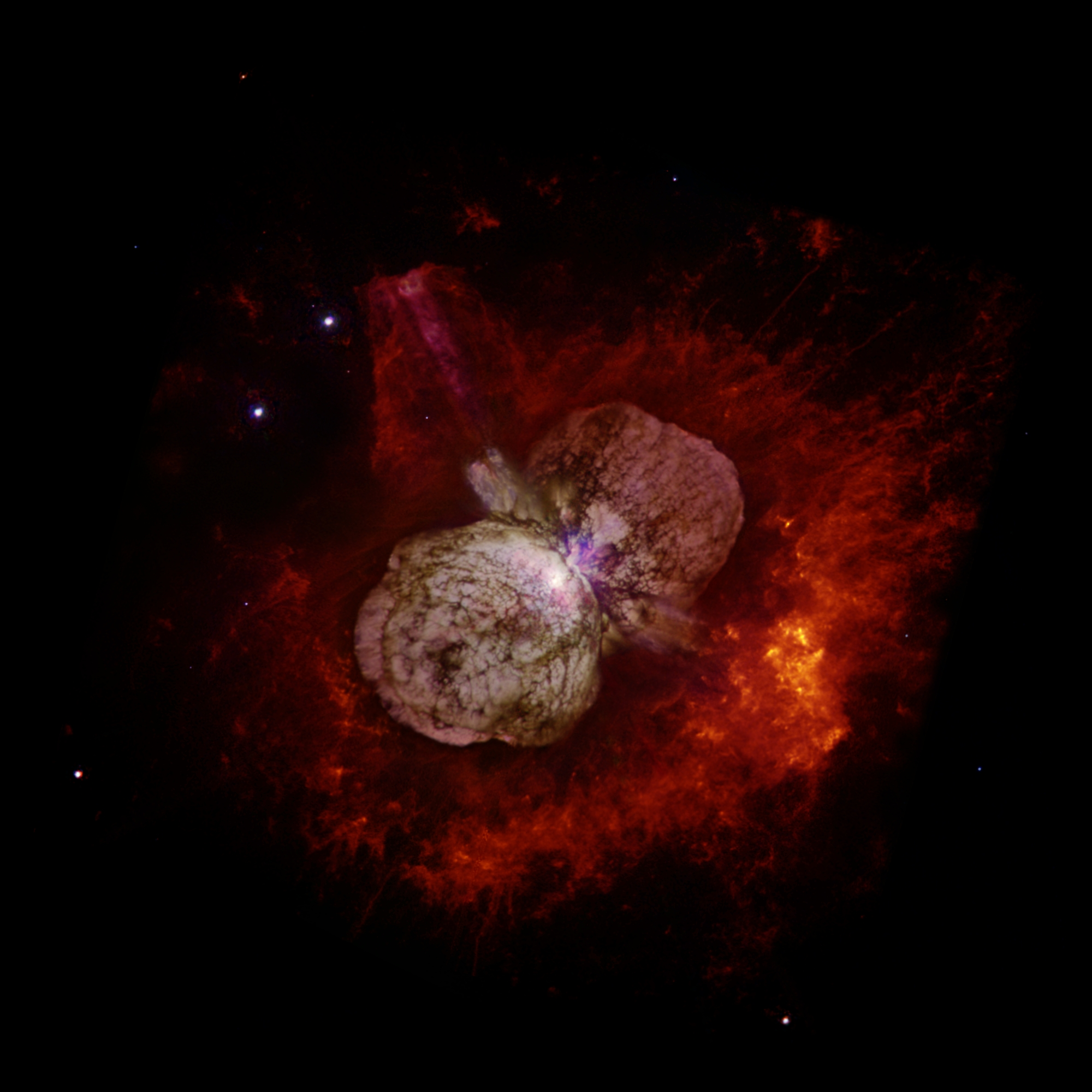 A huge, billowing pair of gas and dust clouds are captured in this stunning NASA Hubble Space Telescope image of the supermassive star Eta Carinae. Eta Carinae was observed by Hubble in September 1995 with the Wide Field and Planetary Camera 2 (WFPC2). Images taken through red and near-ultraviolet filters were subsequently combined to produce the color image shown. A sequence of eight exposures was necessary to cover the object's huge dynamic range: the outer ejecta blobs are 100,000 times fainter than the brilliant central star. Eta Carinae suffered a giant outburst about 160 years ago, when it became one of the brightest stars in the southern sky. Though the star released as much visible light as a supernova explosion, it survived the outburst. The explosion produced two lobes and a large, thin equatorial disk, all moving outward at about 1 million kilometers per hour.